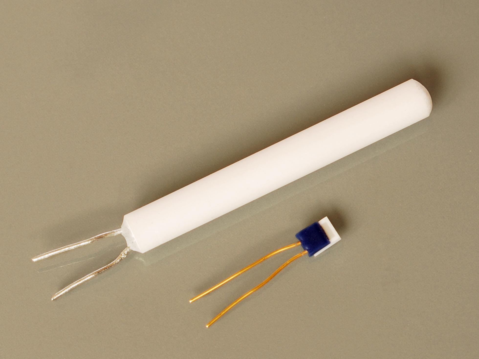 Two Pt100 resistors of different type: a) Wire Wound Pt100 resistor, Length 25 mm, Diameter 3 mm. b) Flat Film Pt100 resistor, 2 mm long x 2 mm wide x 0.4 mm thick.